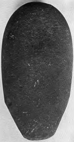 Photo of a "stone implement or weapon" found at the site of Dùn an Achaidh, on the isle of Coll. This image is from a scan of a photo in the book Coll and Tiree; this image was then scaled down to 15% of its original size and then cropped.